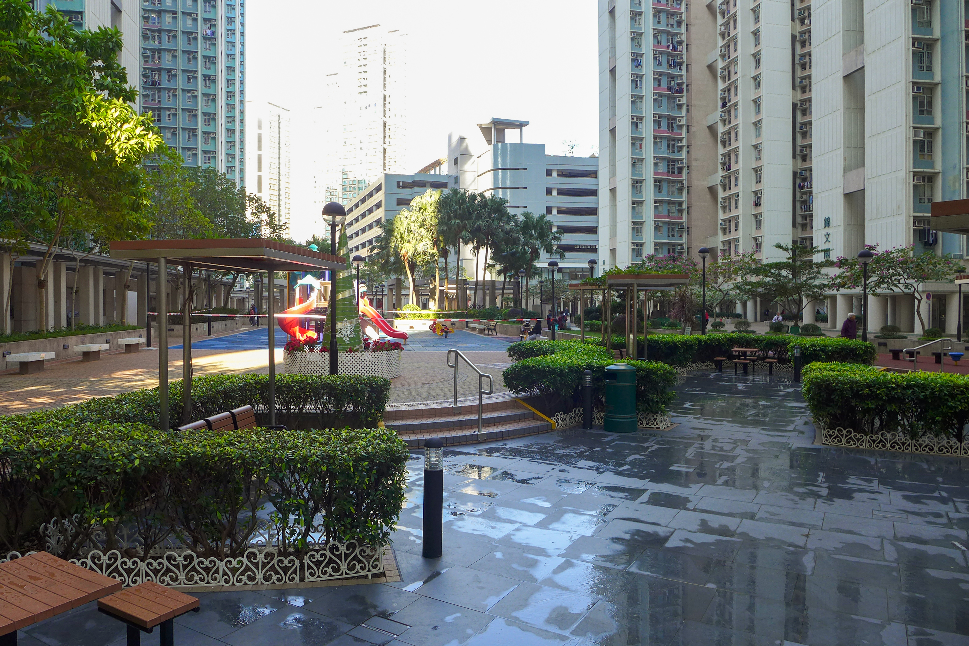 Kam Tai Court Landscape Area